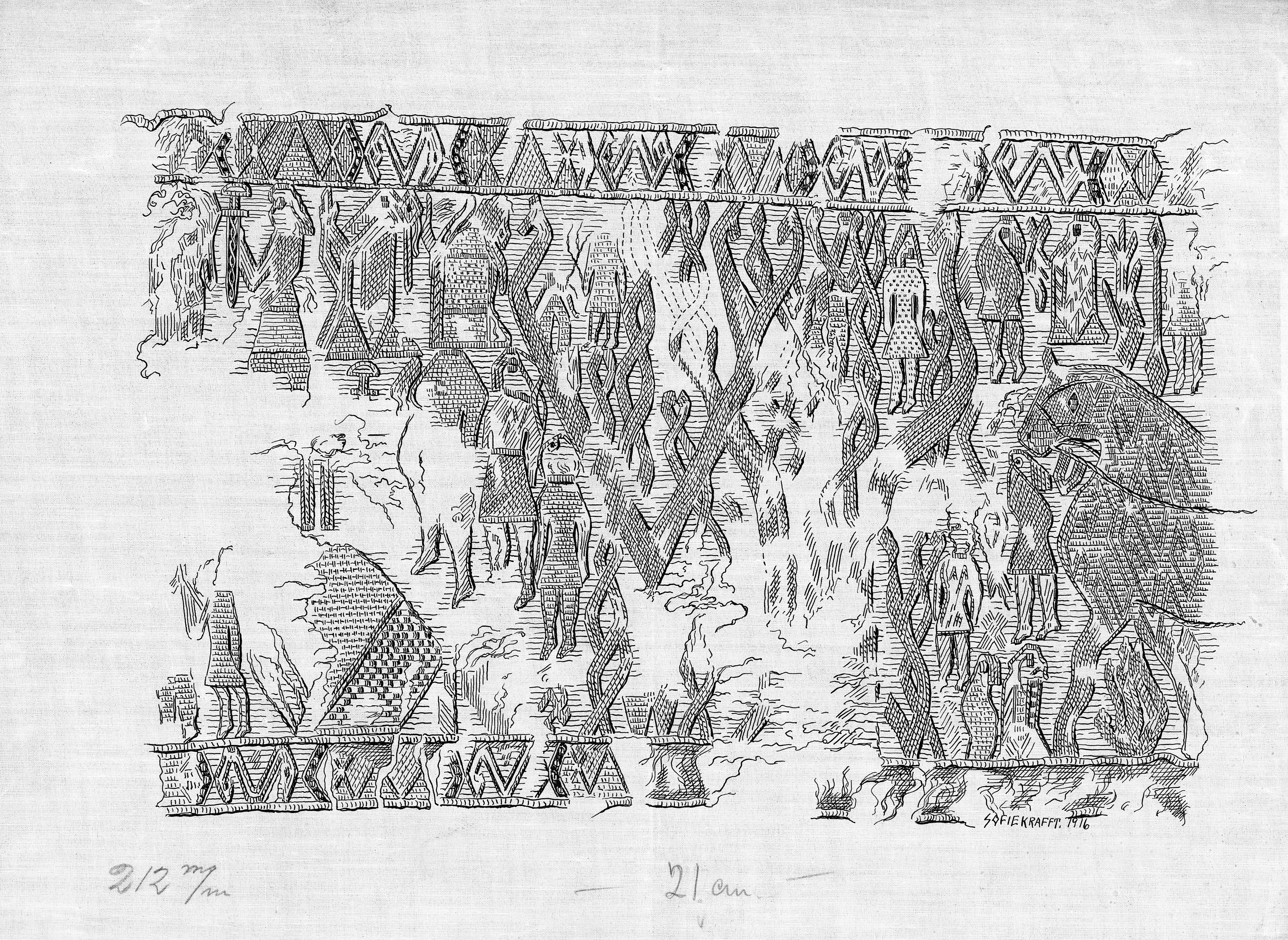 Reconstruction drawing of an Oseberg tapestry (File:Oseberg offerhenging.jpg)